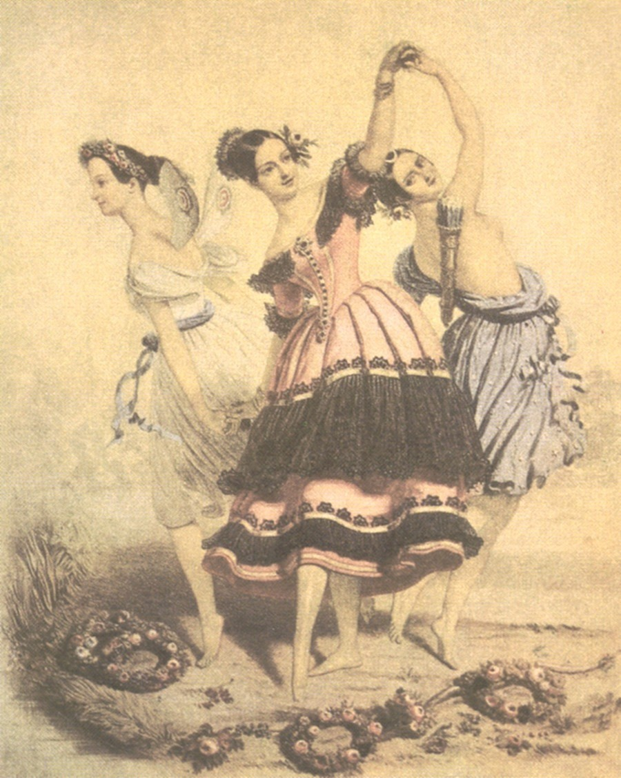 ballerinas (from left to right) Marie Taglioni (1804-1884) in the choreographer Filippo Taglioni (1777-1871) and composer Jean-Madeleine Schneitzhoeffer's (1785-1852) 1832 ballet "La Sylphide"; Fanny Elssler (1810-1884) in the Danse nationale "La Cachucha" from the choreographer Jean Coralli (1779-1854) and composer Casimir Gide's (1804-1868) 1836 ballet "Le Diable boiteux"; and Carlotta Grisi (1819-1899) in the "Grand pas de Diane chasseresse" from the choreographer Ferdinand Albert Decombe (1789-1896) and composer Adolphe Adam's (1803-1856) 1842 ballet "La Jolie Fille du Gand".